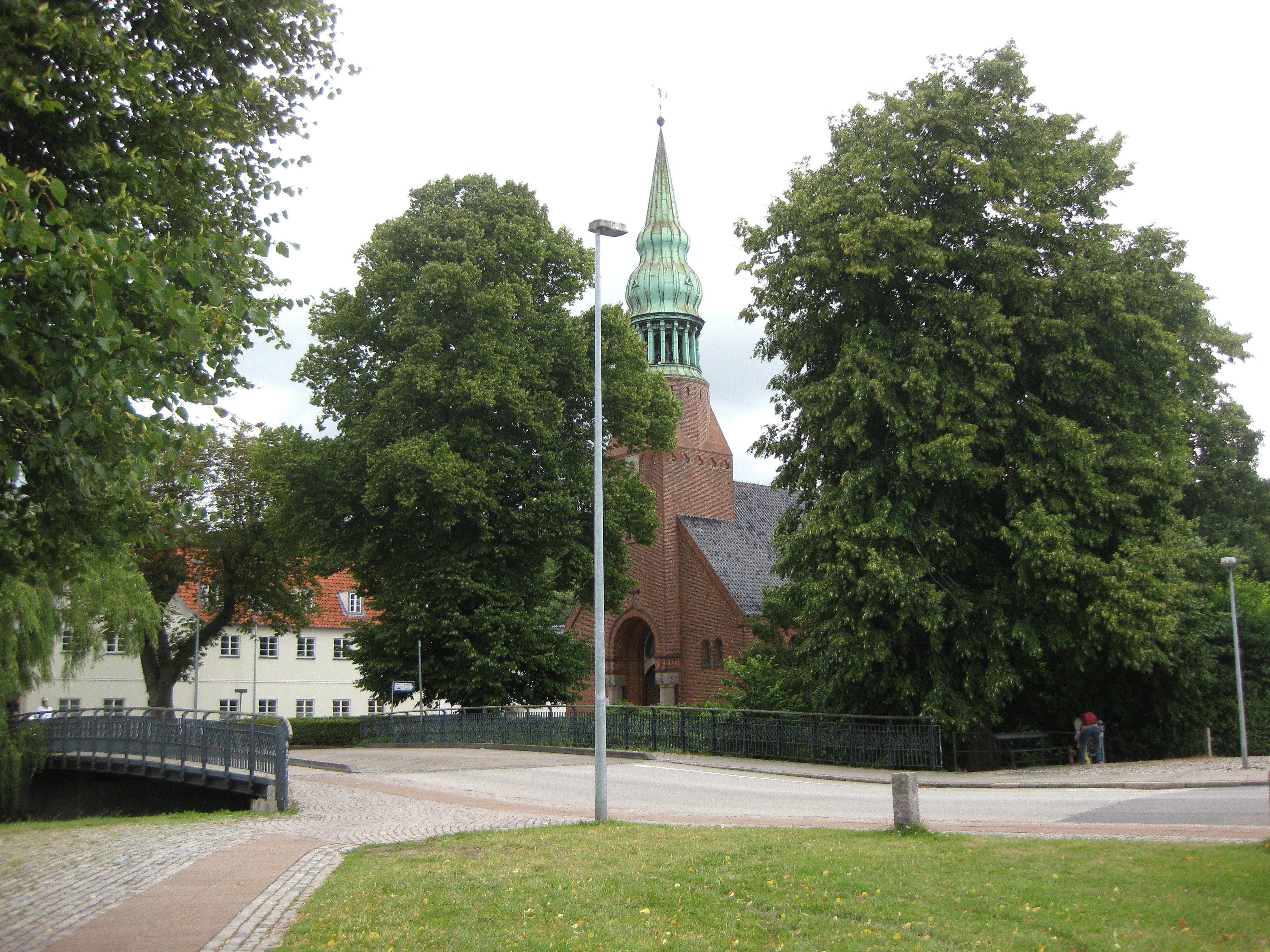 View at the church in the town "Frederiksværk". The town is located in North Zealand, east Denmark.